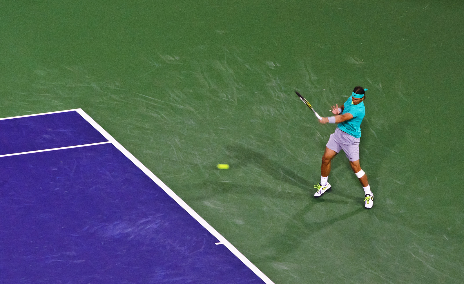 2013 BNP Paribas Open - Rafael Nadal vs Ryan Harrison (2nd round)